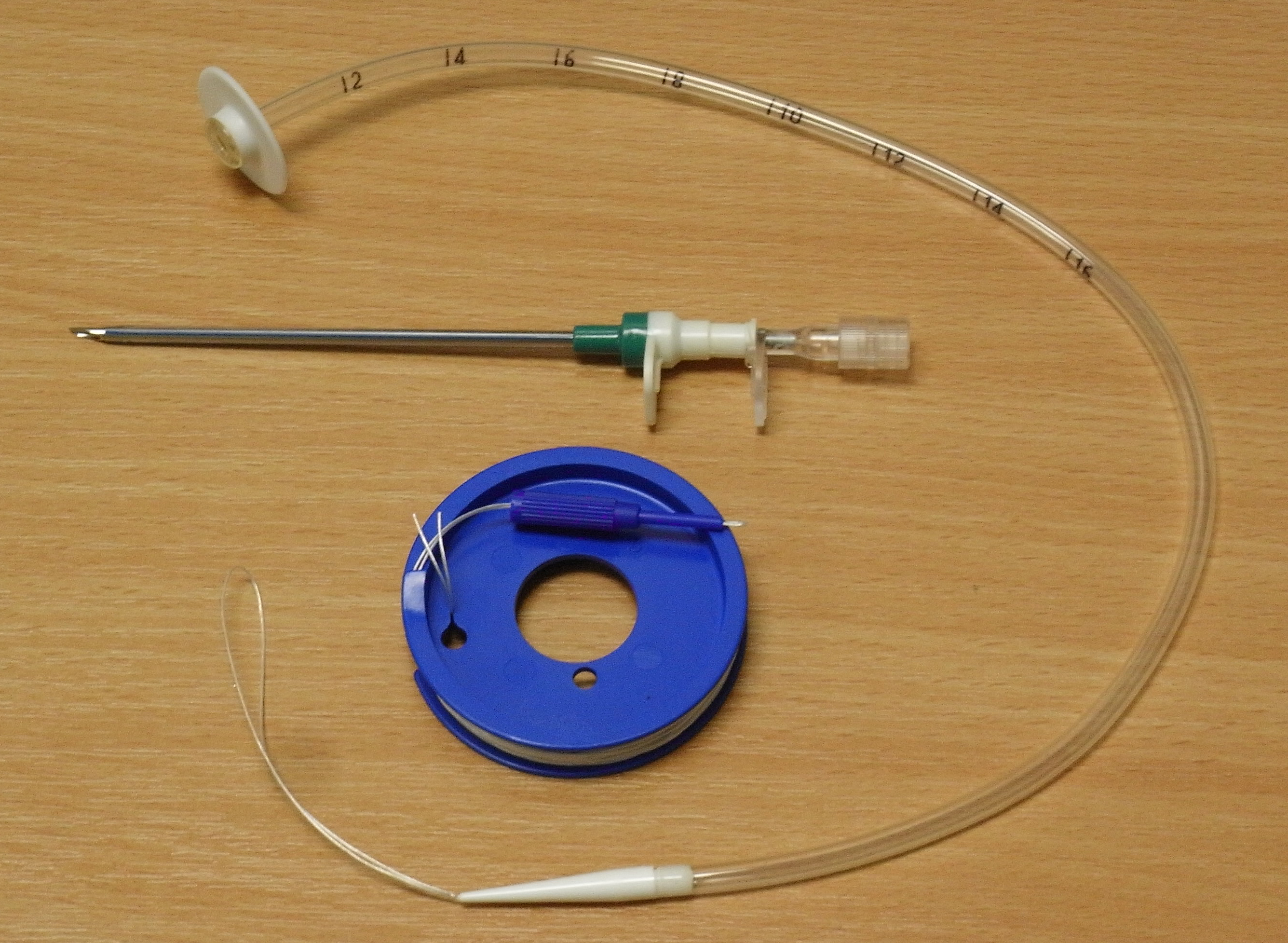 Equipment for insertion of percutaneous endoscopic gastrostomy (PEG) tube